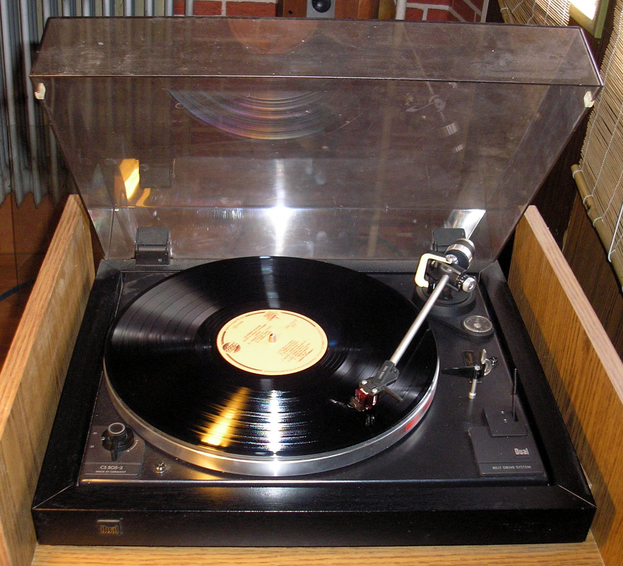 Dual 505-3 turntable